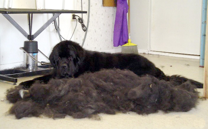 This is a photo I took of my newfoundland after I combed out the undercoat